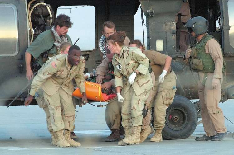 19SFG Special Forces soldier Christopher Speer being unloaded at Bagram Airbase after sustaining head injuries from a grenade thrown during a firefight in which Omar Khadr was captured.